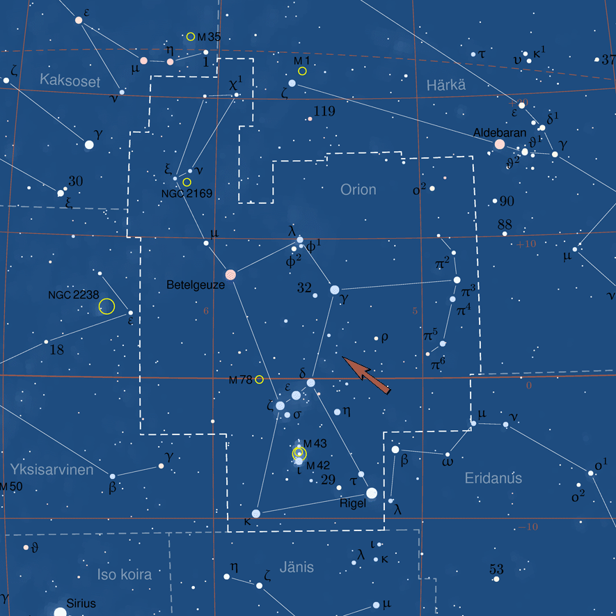 location of 25 Orionis in the Orion constellation